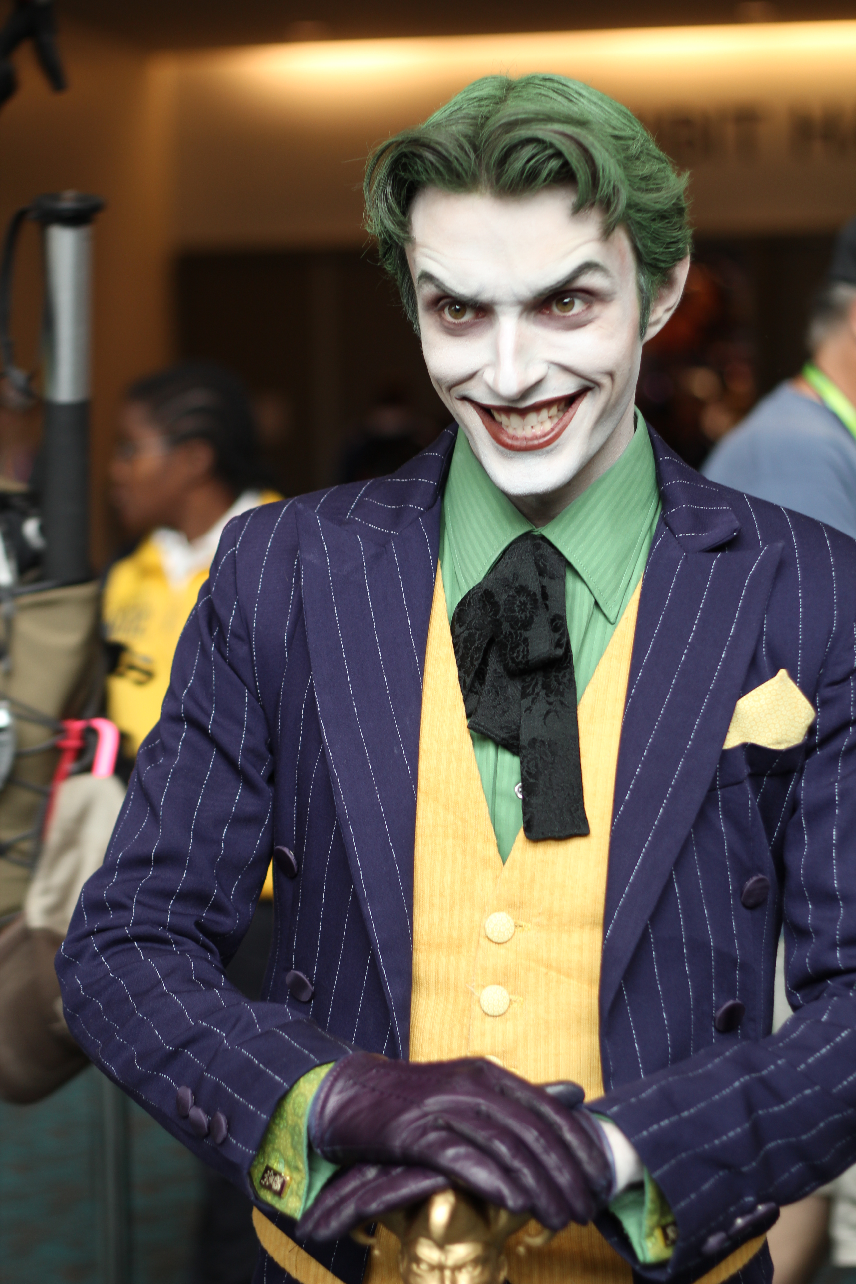 Cosplay at San Diego Comic-Con (SDCC 2012).